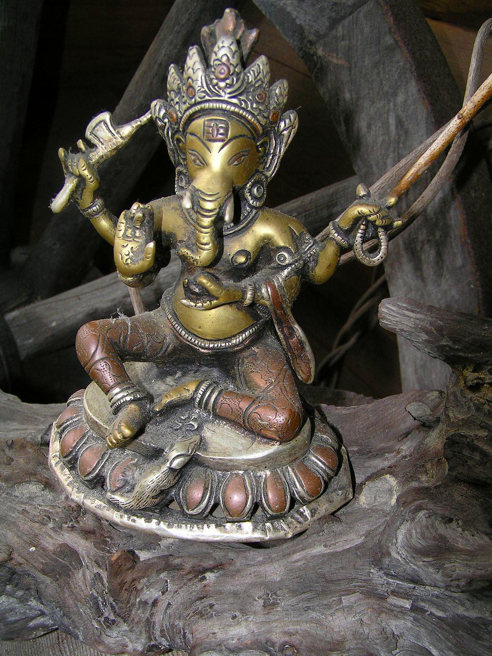 Ganasha image made of brass